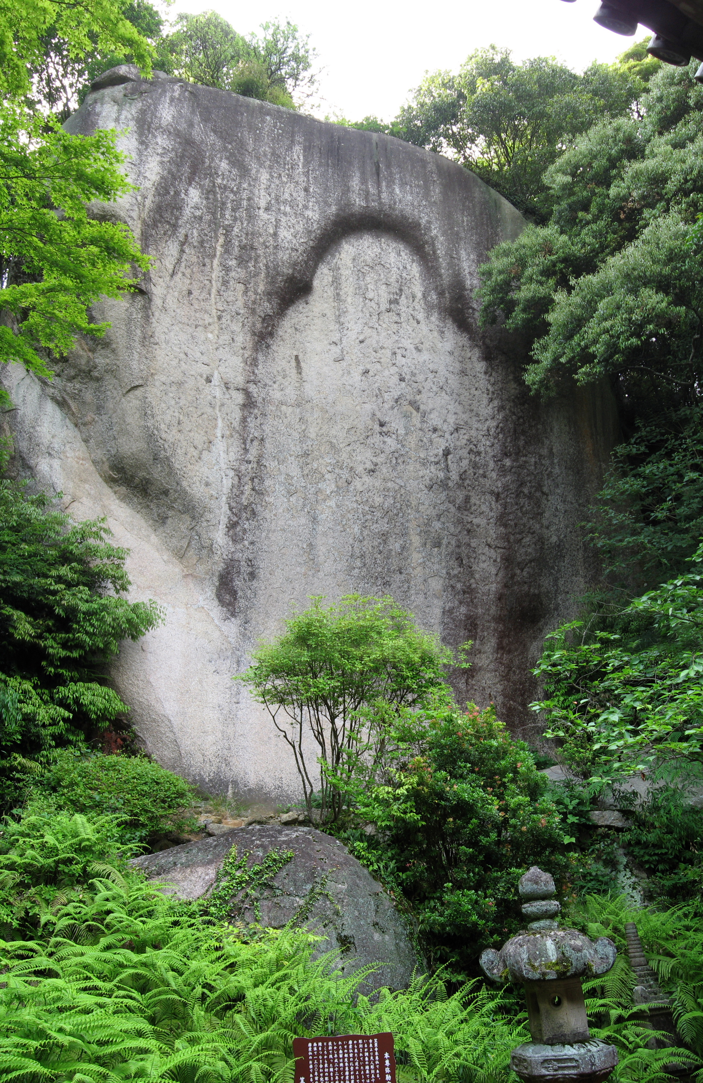 Honzon of Kasagidera